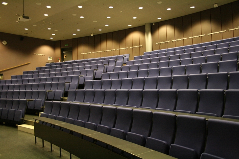 BI Norwegian School of Management, Campus Nydalen, Oslo, Norway.